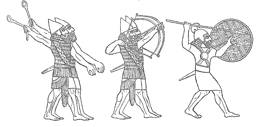 Assyrian soldiers.